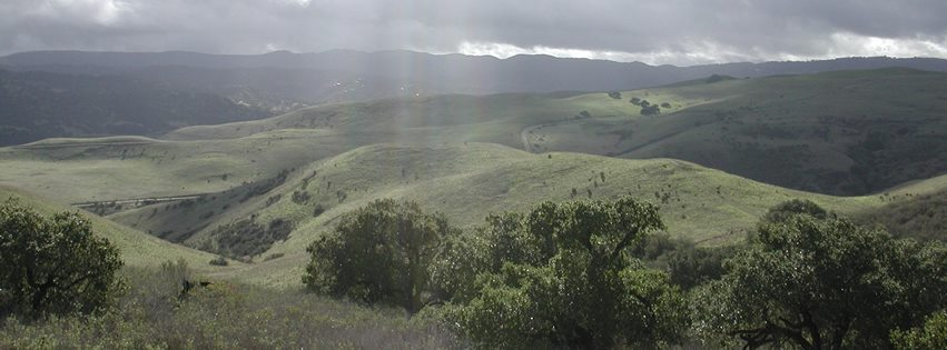 From the new Fort Ord National Monument — at California